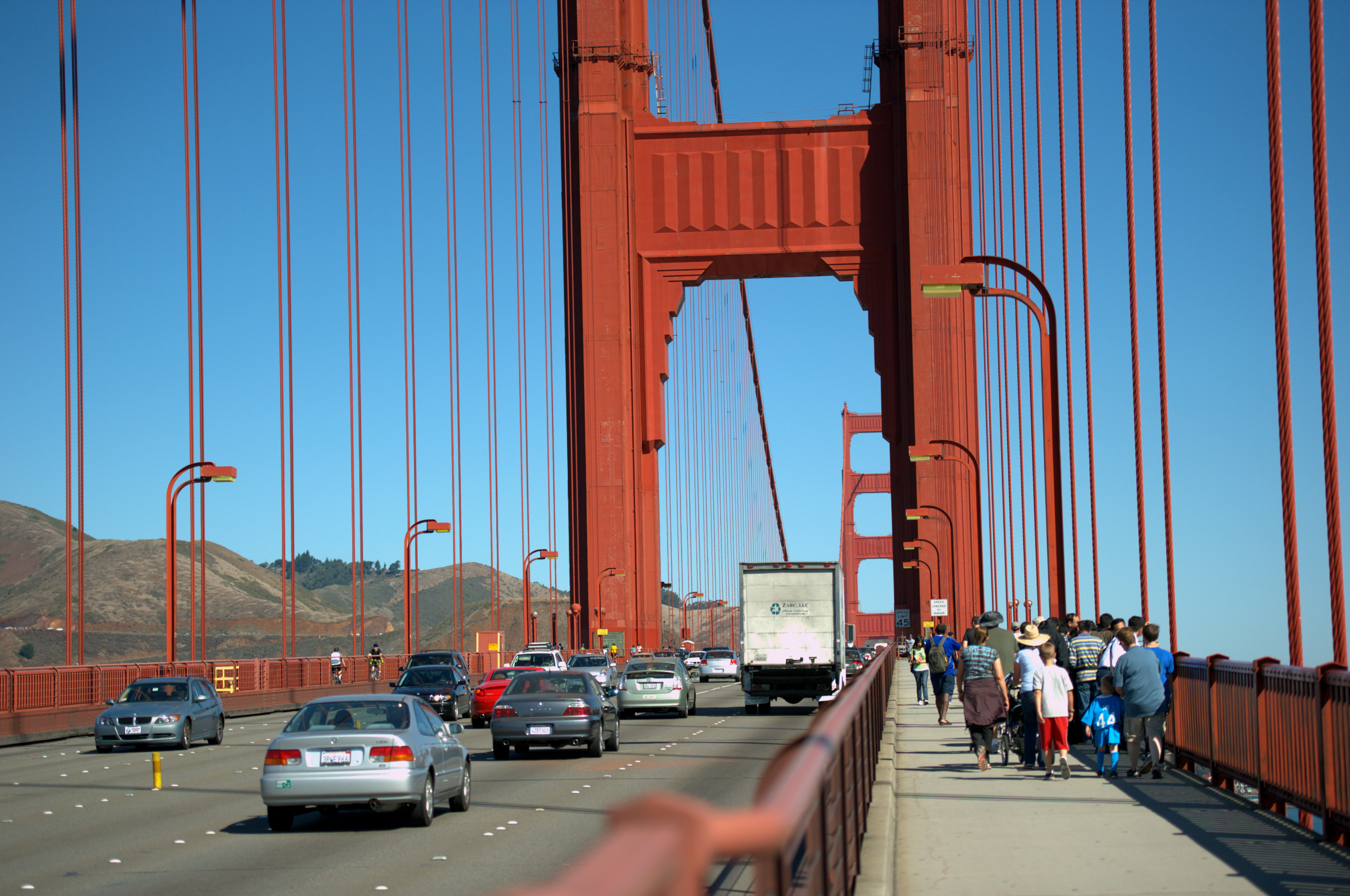 South tower and cables of the Golden Gate Bridge seen from the bridge northbound, in San Francisco, California